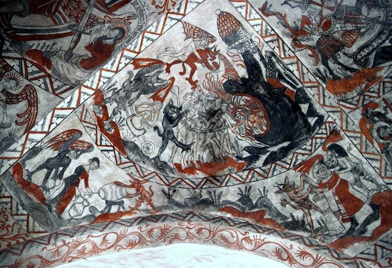 Frescoes by The Isefjord Master from apr. 1460-1480 in Tuse Kirke (church)